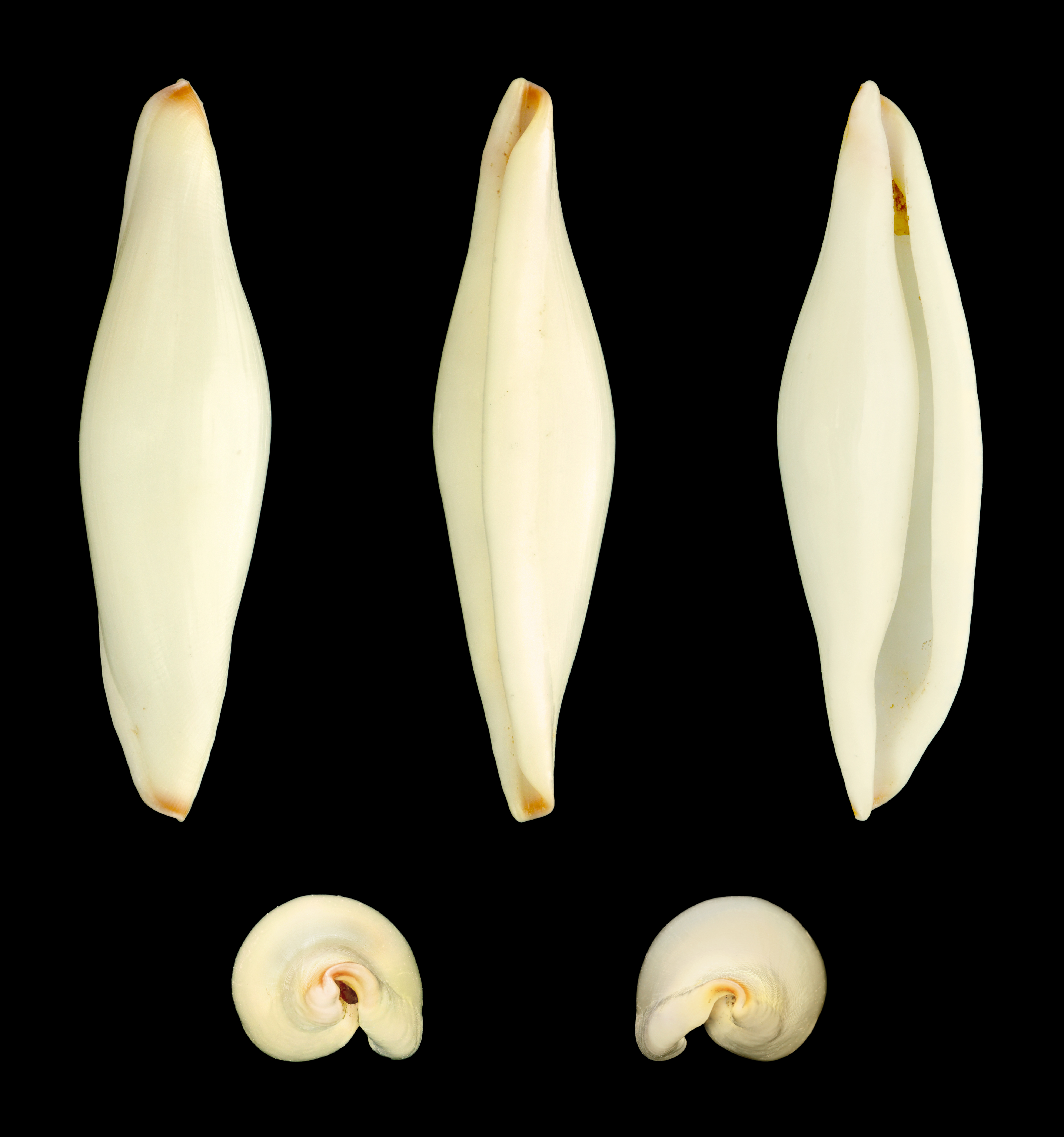 Length 2.6 cm; Originating from Bohol, Philippines; Shell of own collection, therefore not geocoded. Dorsal, lateral (right side), ventral, back, and front view.